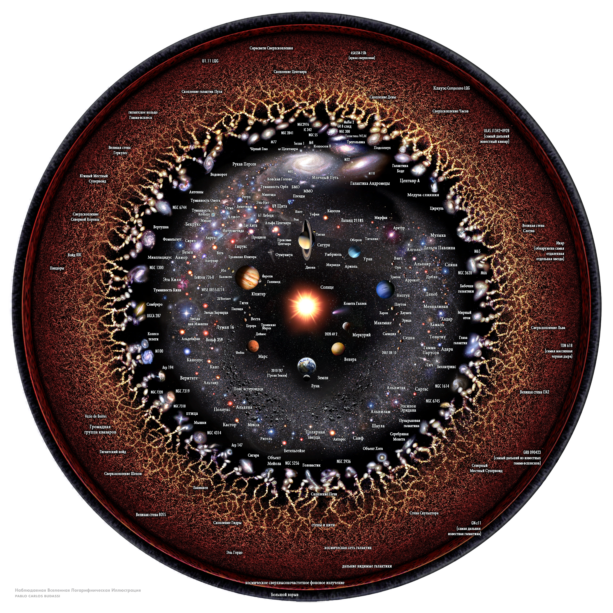 Концепция логарифмического масштаба наблюдаемой Вселенной с Солнечной системой в центре, внутренней и внешней планетами, объектами пояса Койпера, Альфа Центавра, Персеем, Галактикой Млечный Путь, галактикой Андромеды, близлежащими галактиками, Космической Паутиной, Космическим микроволновым излучением и невидимым Большого взрыва. плазма по краю. Расстояние от Земли экспоненциально увеличивается от центра к краю. Небесные тела показаны увеличенными, чтобы оценить их формы.